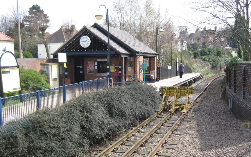 Stourbridge Town StationOpened in 1879 by the Great Western Railway on the end of a very short branch from Stourbridge Junction, it has been rebuilt several times. The original structure was to the right of the line but behind the camera position. The short branch was last made a little shorter in 1994 when the present station opened. View south east towards the Junction station.